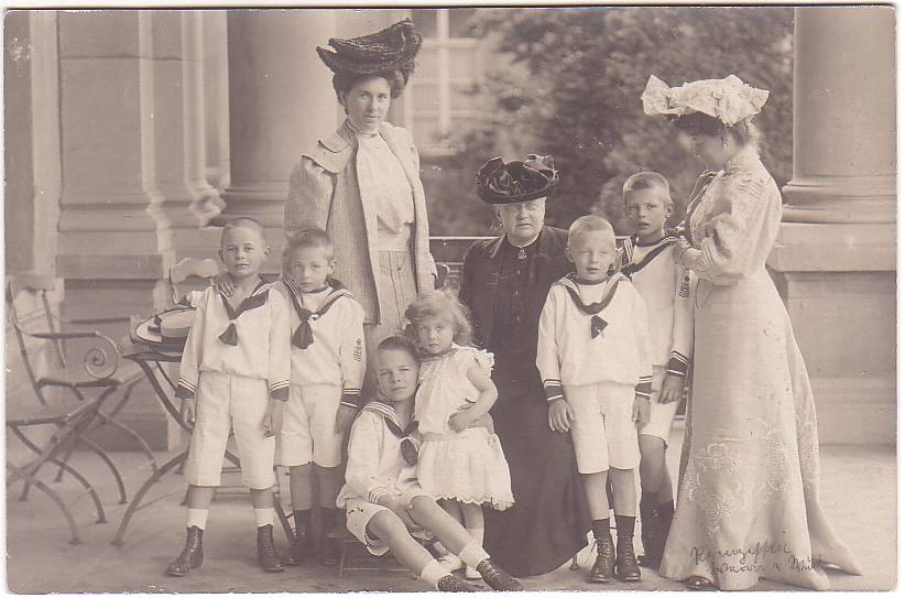 source: Jacuqes Ferrand collection Grand Duchess Vera Konstantinovna withher daughter and grandchildren